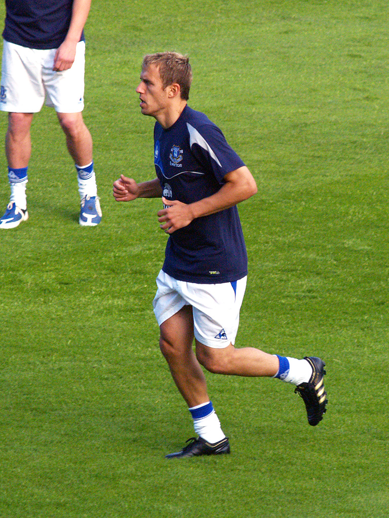 Everton FC midfielder Phil Neville during the warm up at Gigg Lane, home of Bury Football Club prior to the Bury vs. Everton friendly game. Friday 10th July 2009